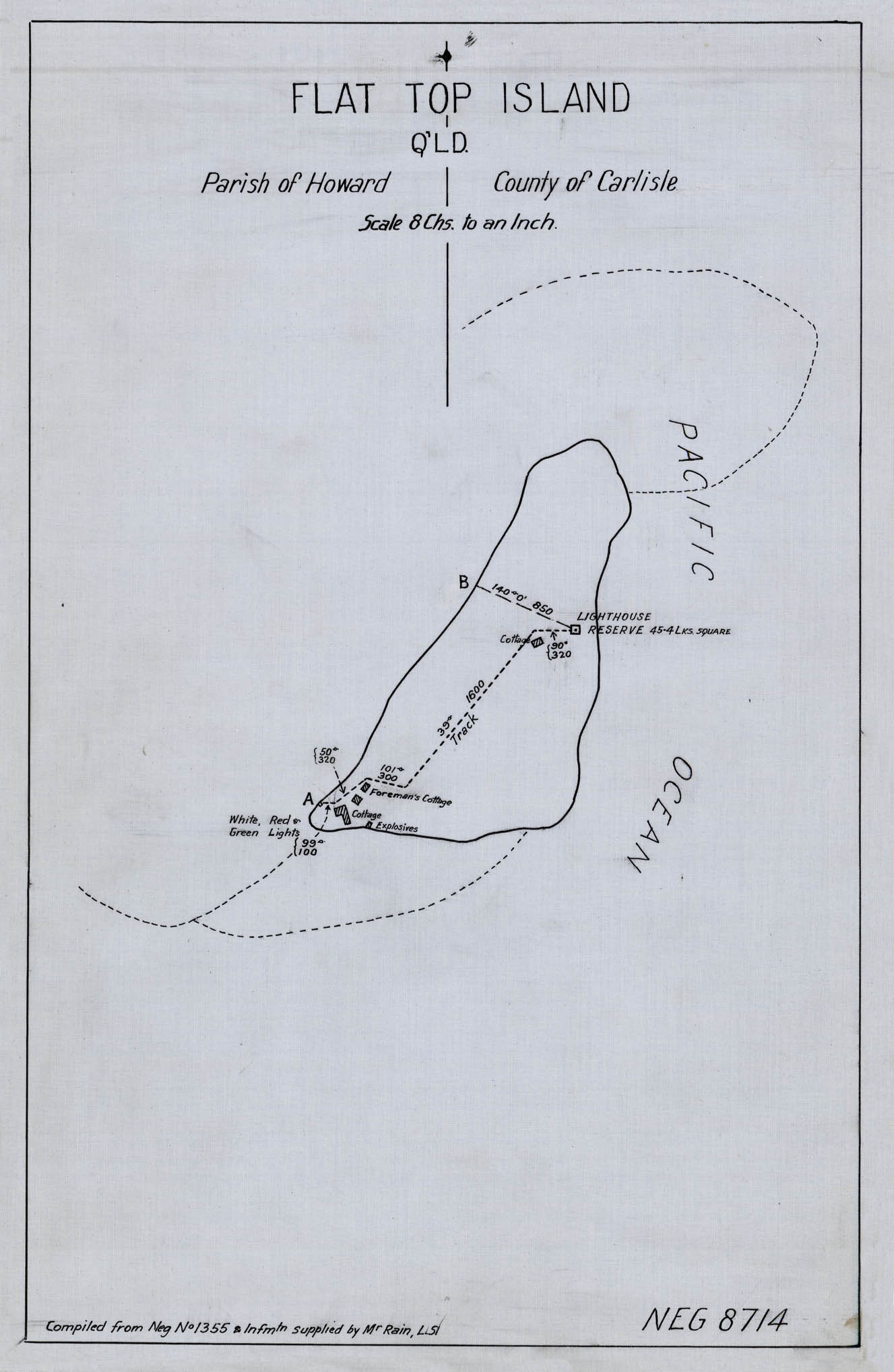 Flat Top Island - Parish of Howard, County of Carlisle